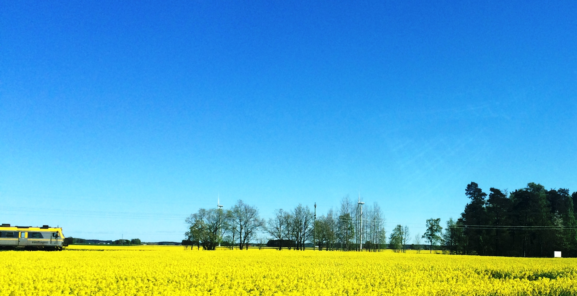 Image from the municipality of Grästorp, central Sweden